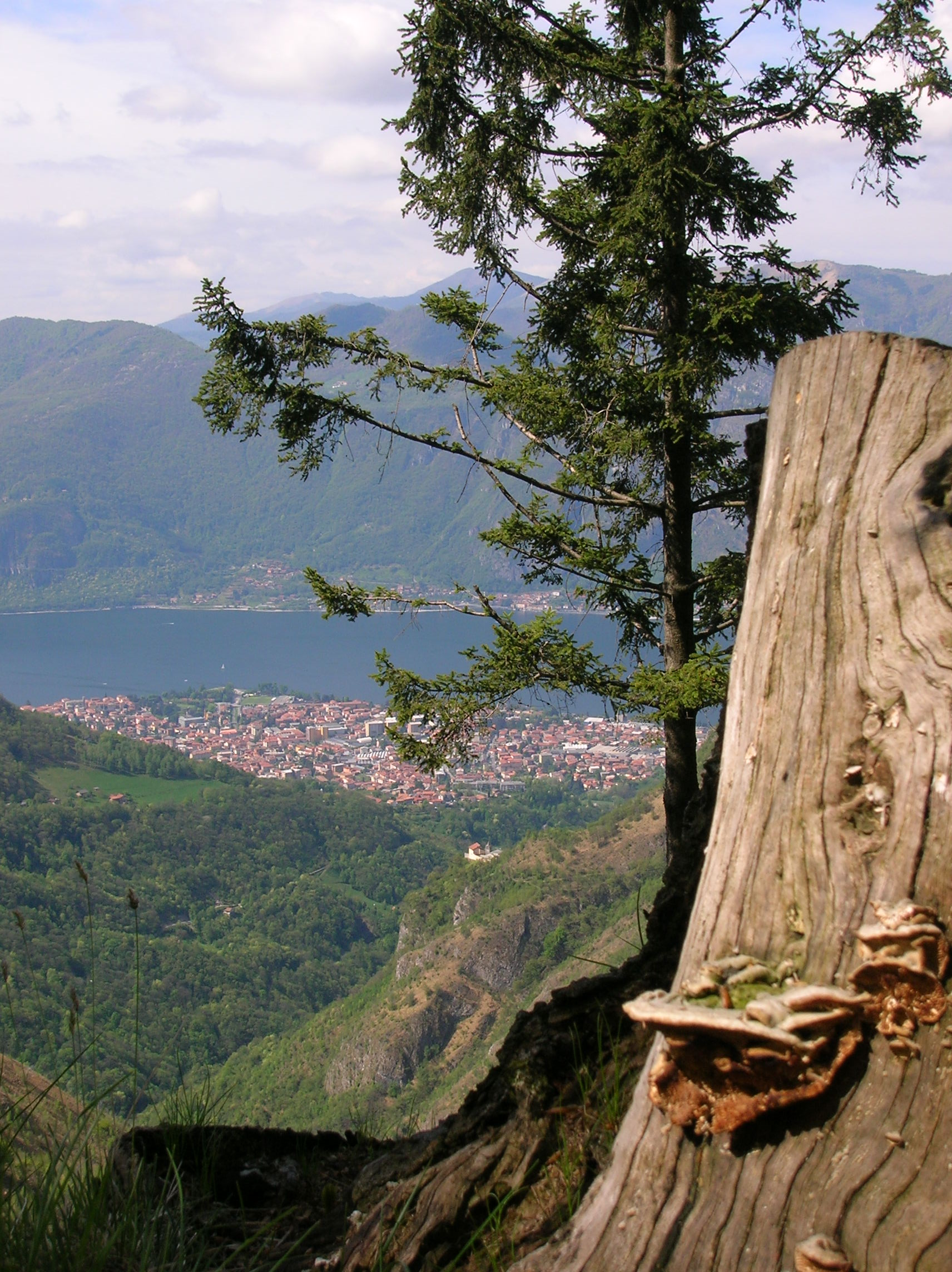 Mandello del Lario seen from La Gardata